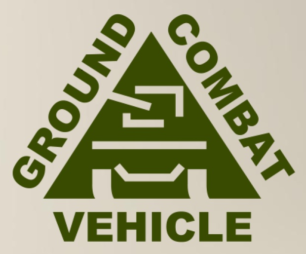 New logo as seen on the last slide of the most recent Industry Day powerpoint